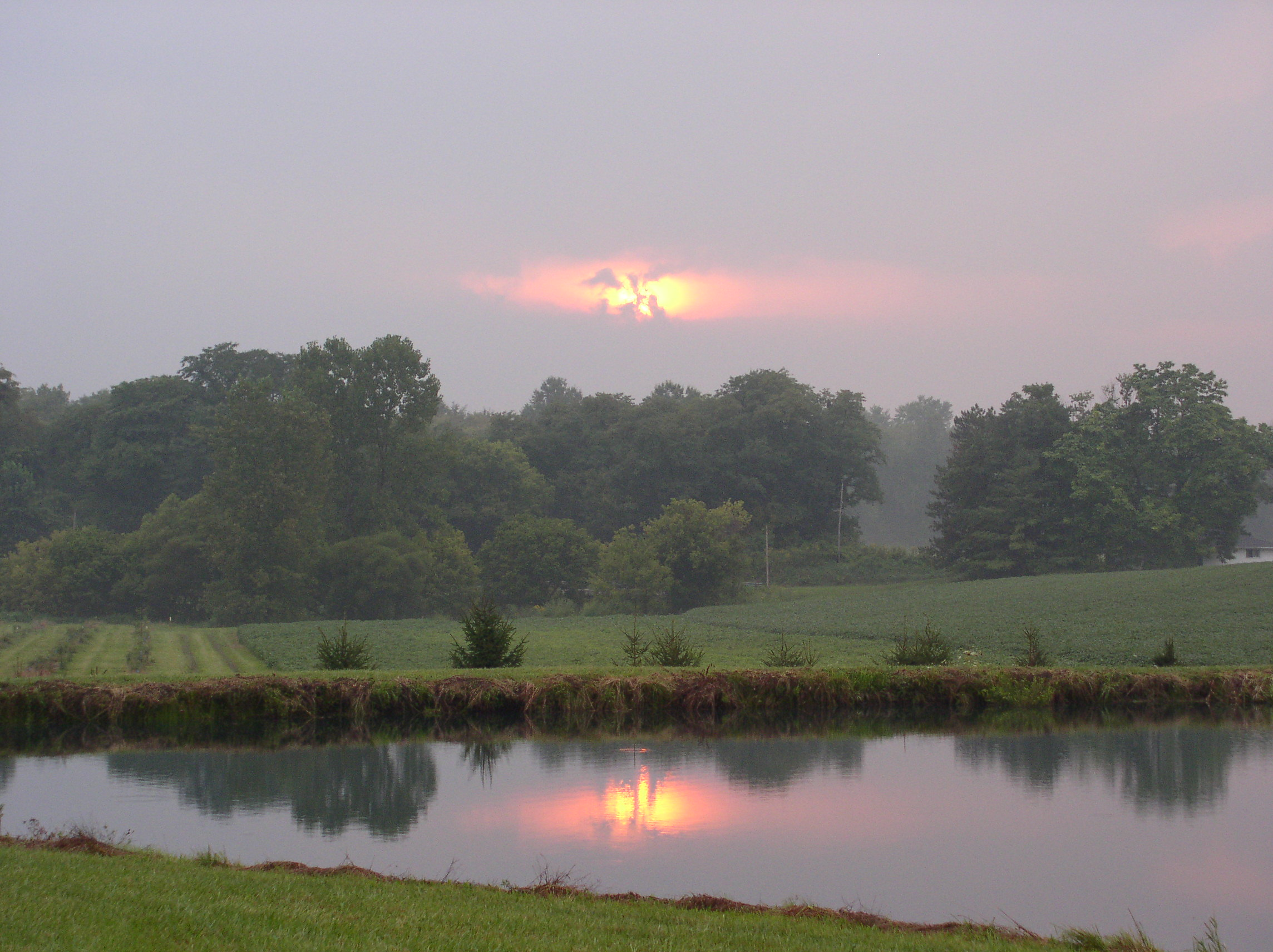 Eastern Delaware County, Ohio, USA. Once a muddy field, this pond provides a family recreation area. Filter strips were installed around the pond and creek and hardwood trees were planted.